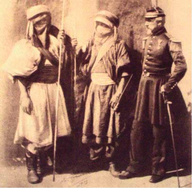 The French general Adolphe Hanoteau with two Twaregs he met in Laghouat and with whom he revised his Twareg Grammar, initially written with the help of an ancient slave (1858) Taqbaylit: Ajininar Adolphe Hanoteau akked sin n Imuhagh yemlal deg Laghwat, yura yid-sen tajerrumt n tamaceq i yebda af tutlayt n wakli (1858)